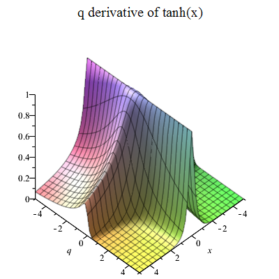 q derivative of tanh(x) 3D